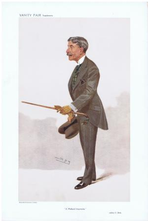 Caricature of Alfred Bird Vanity Fair 30 Sep 1908. Caption read "A Midland Imperialist"